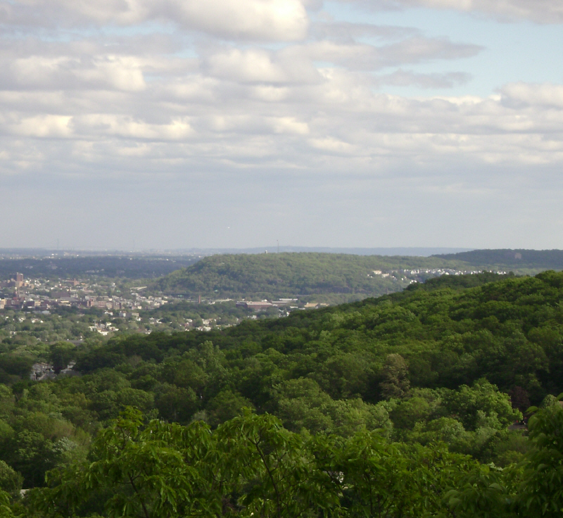 View near the summit of High Mountain in Wayne. In the right foreground is the eastern slope of Mount Cecchino, the third highest peak of the Watchung Mountains. In the background, Garret Mountain, part of First Watchung Mountain, looms over downtown Paterson.